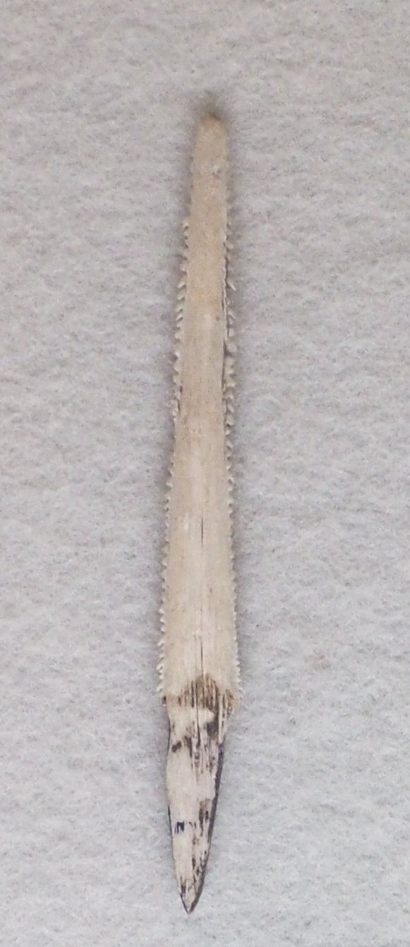 Ancient arrowhead made of rays. Okumatsushima Jomon History Musium in Miyagi prefecture, Japan.